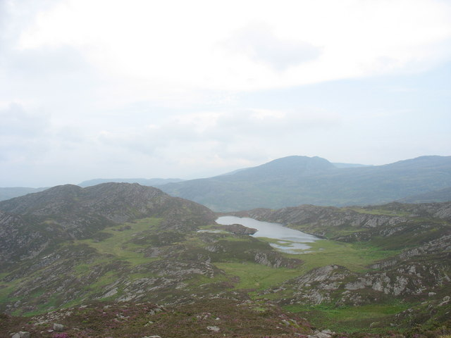 Gloywlyn. An 8 acre lake set amongst rocky outcrops. The southern end of the lake has a considerable amount of vegetation.